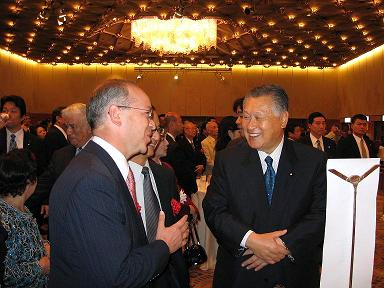 Consul General of Osaka Daniel R Russel talking with former Prime Minister of Japan Yoshiro Mori at the party.